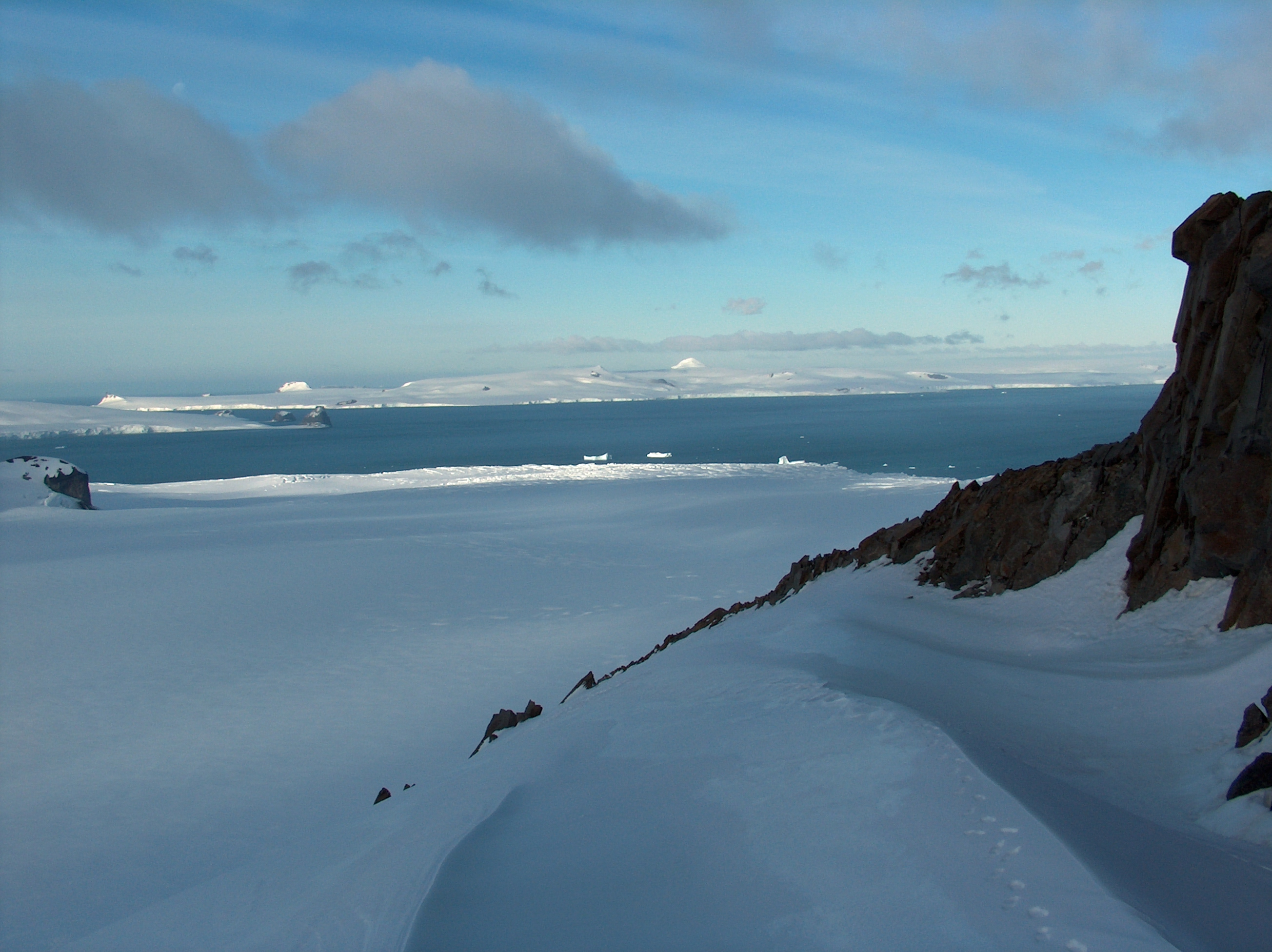 McFarlane Strait and Greenwich Island from the northern foothills of Ravda Peak on Livingston Island in Antarctica